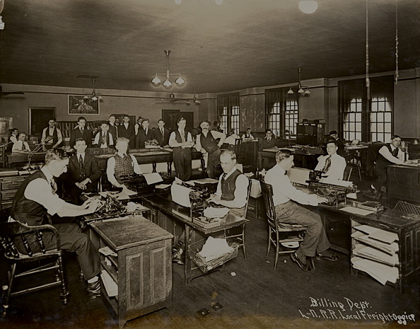 Billing Department, Local Freight Office, L. & N. Railroad, New Orleans, photograph by Covert, 1917. In the right foreground is a wide-carriage front-strike typewriter..